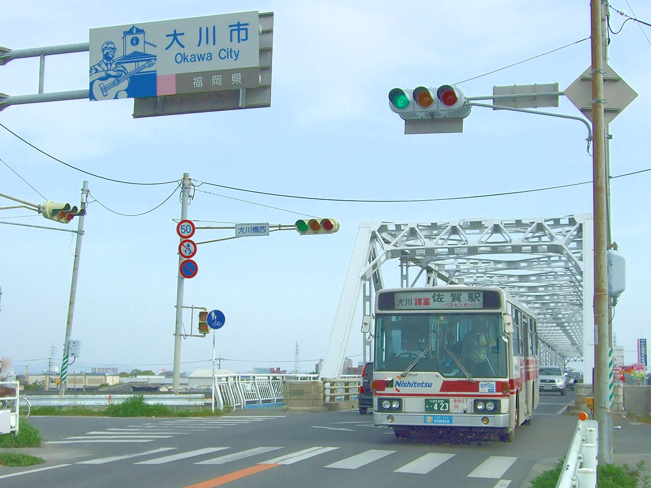 Hino Motors Blue Ribbon U-HT2MMAA with Nishi-Nippon Shatai Kogyo body for Nishitetsu Bus Kurume Okawa Branch #8807 transit bus (license plate: Kurume 200 KA 423) at Okawa Bridge on the National Route 208 in Morodomicho, Saga City, Saga Prefecture, Japan